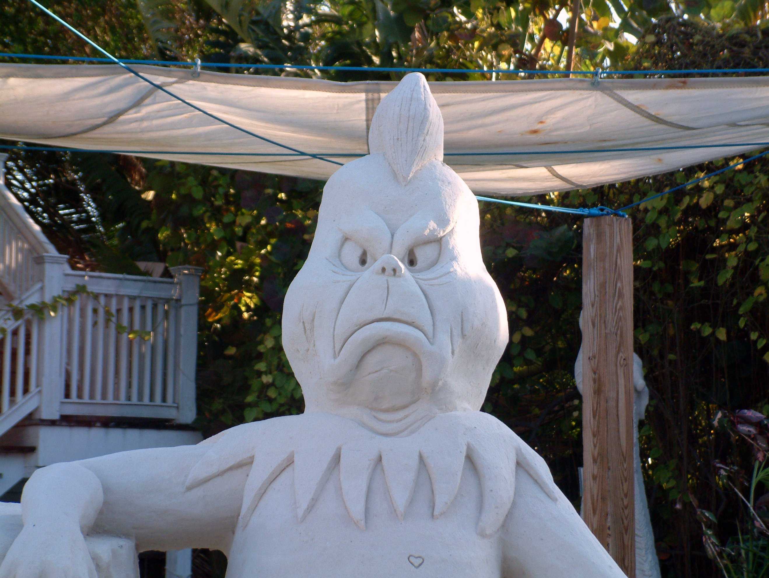 A sand sculpture of the Dr. Seuss character The Grinch, in Key West, Florida.